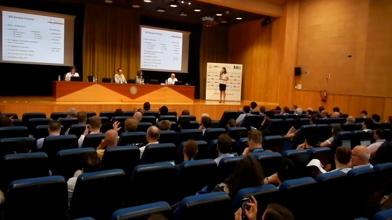 22nd International Conference on Business Information Systems